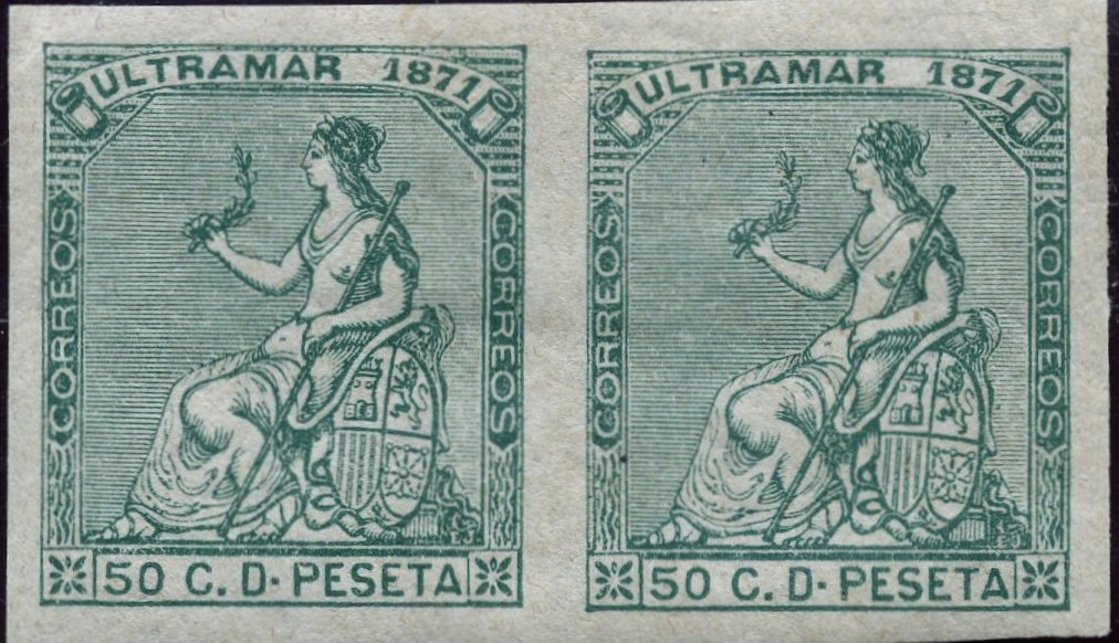 Stamp of Cuba, 1871, depicting the second allegory of Spain.